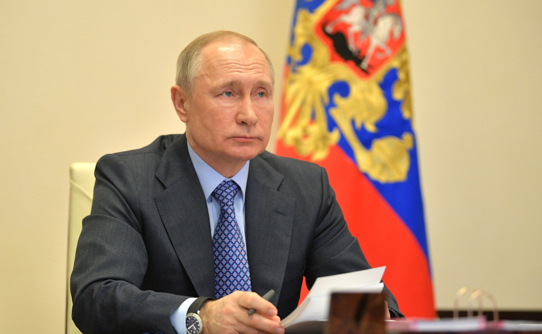 Vladimir Putin in April 2020